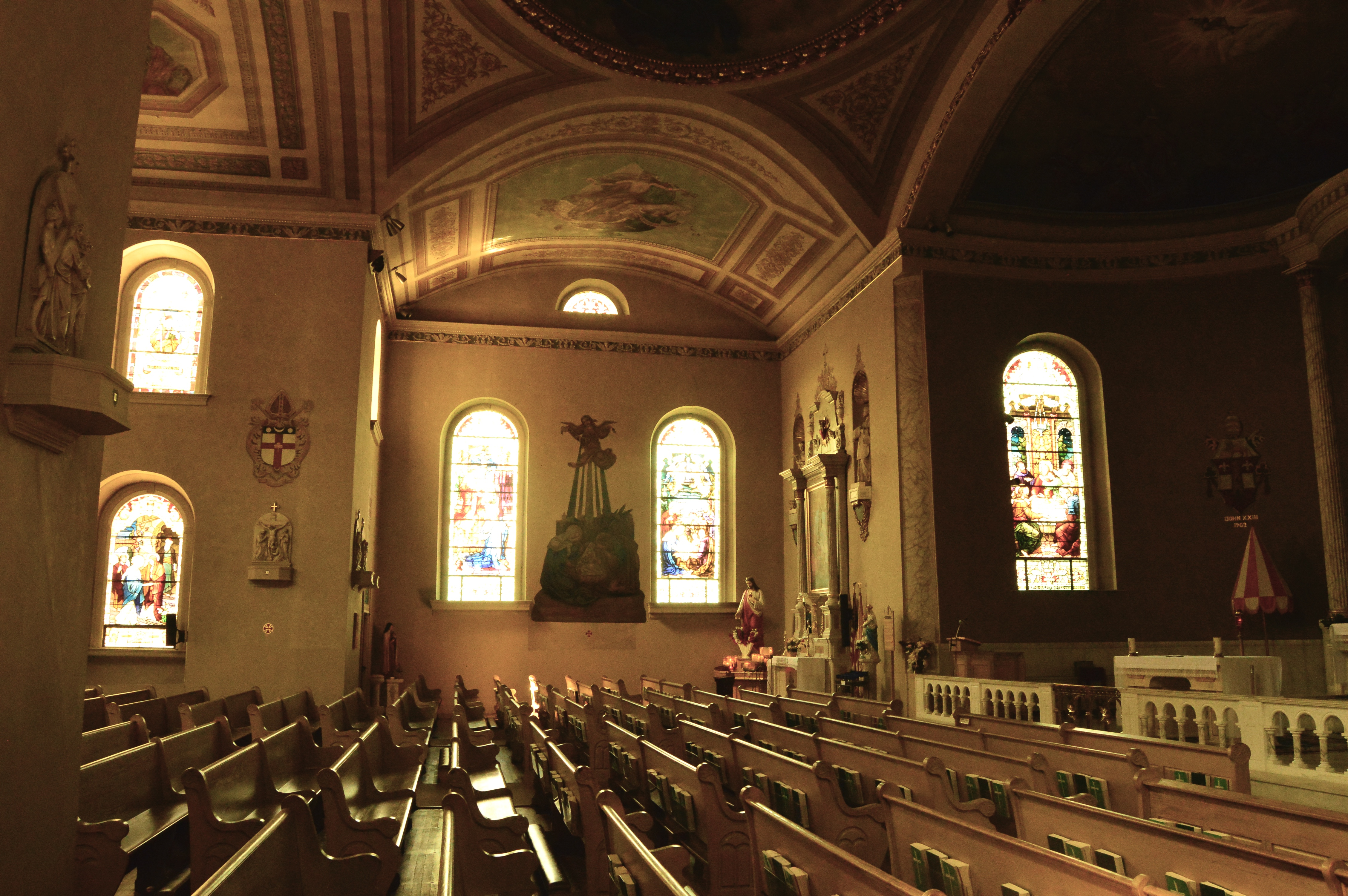 Interior of Conewago Chapel (1787), oldest stone Catholic church in the United States, June 2016.